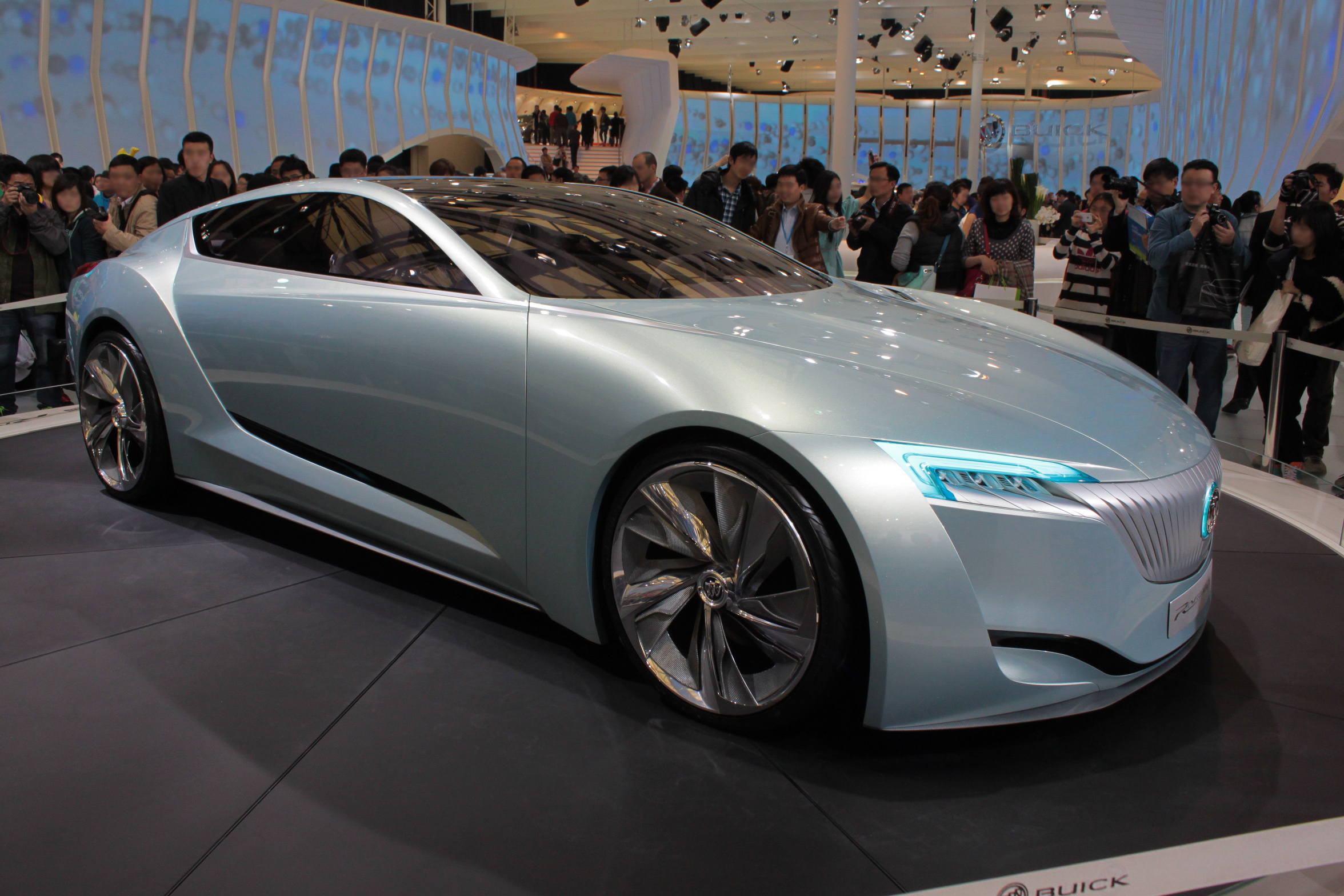 Buick Riviera Concept at Auto Shanghai 2013